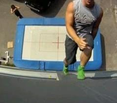 Wall Running